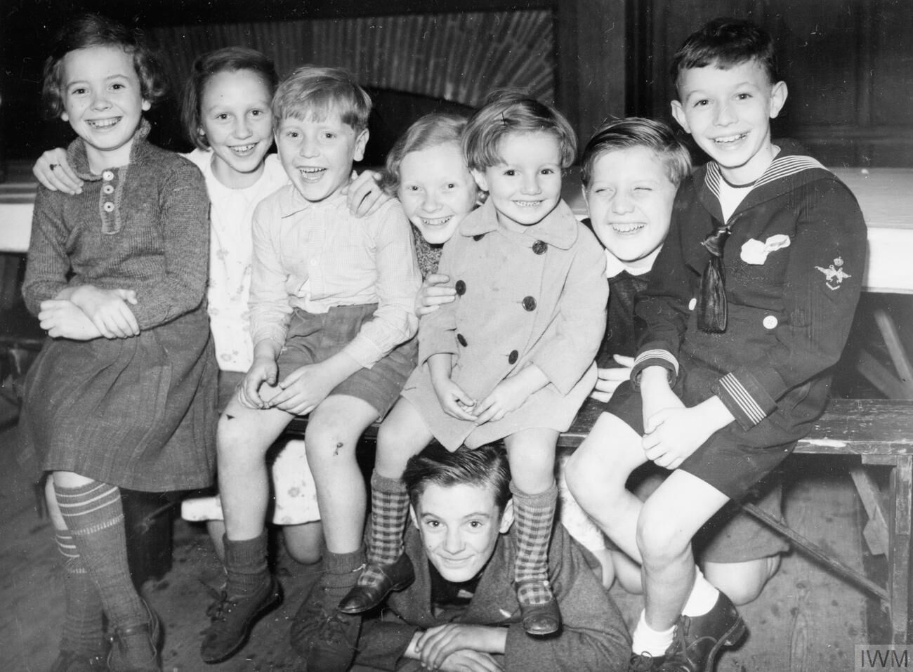 Belgian Refugee Children in London, England, 1940 A group of eight young Belgian refugees smile for the camera at their billet, somewhere in London.